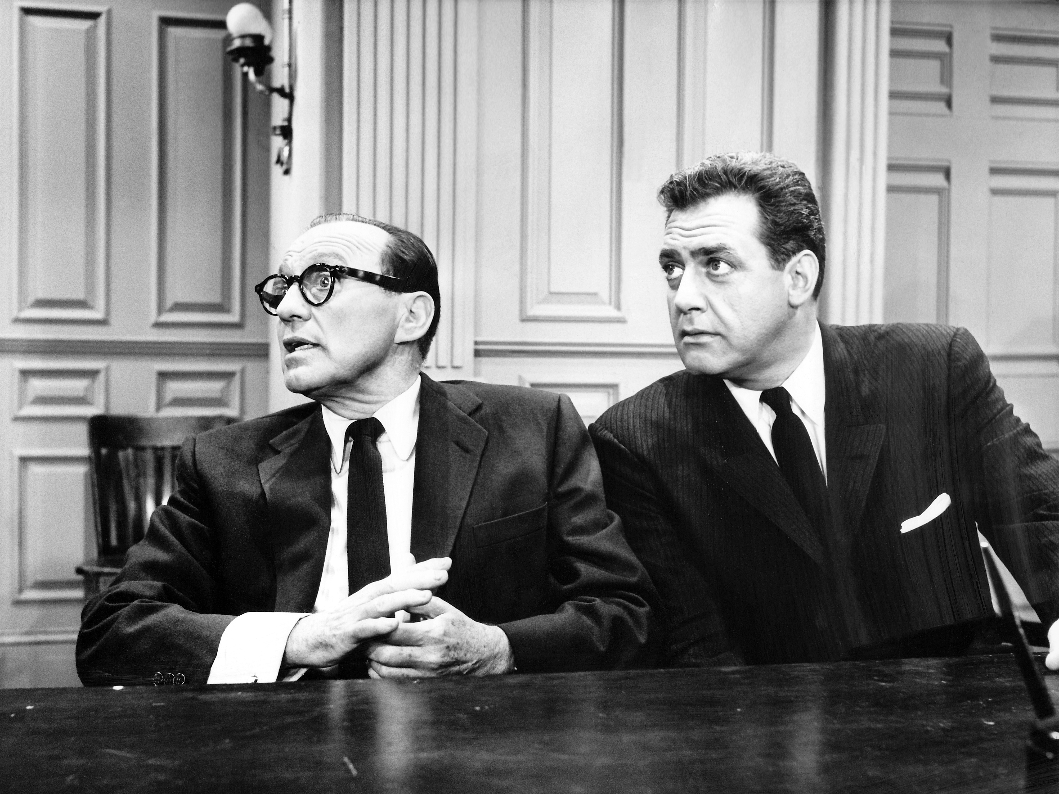 Press photograph for The Jack Benny Program broadcast "Jack On Trial for Murder" with guest star Raymond Burr in character as Perry Mason